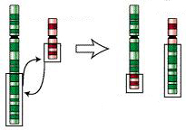 Different types of mutation